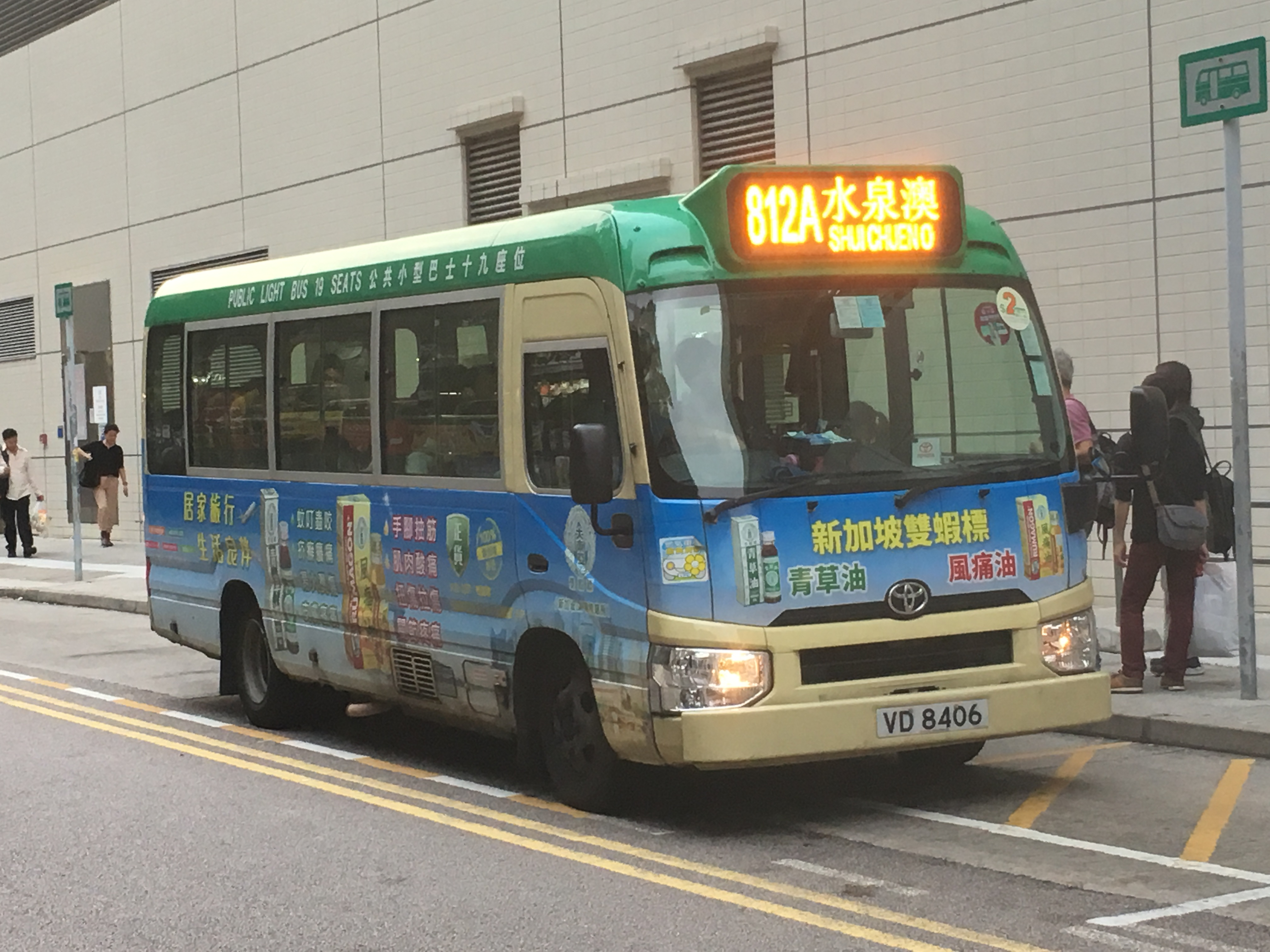 中文（香港）: This photo is taken in Pok Hong.